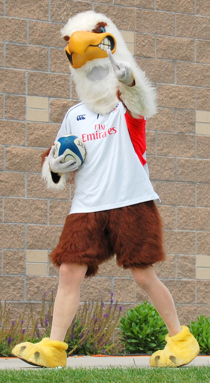 The mascot of the United States national rugby union team, a person wearing a bald eagle costume, at the 2010 Churchill Cup.